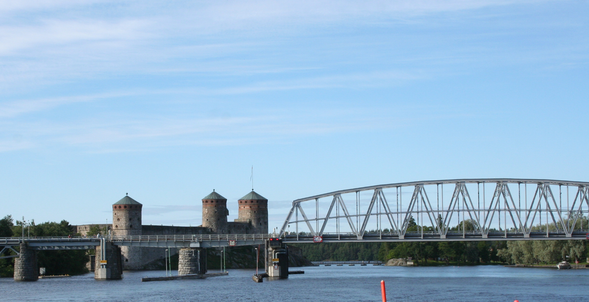 Kyrönsalmi railway bridge and Olavinlinna castle in Savonlinna, Finland